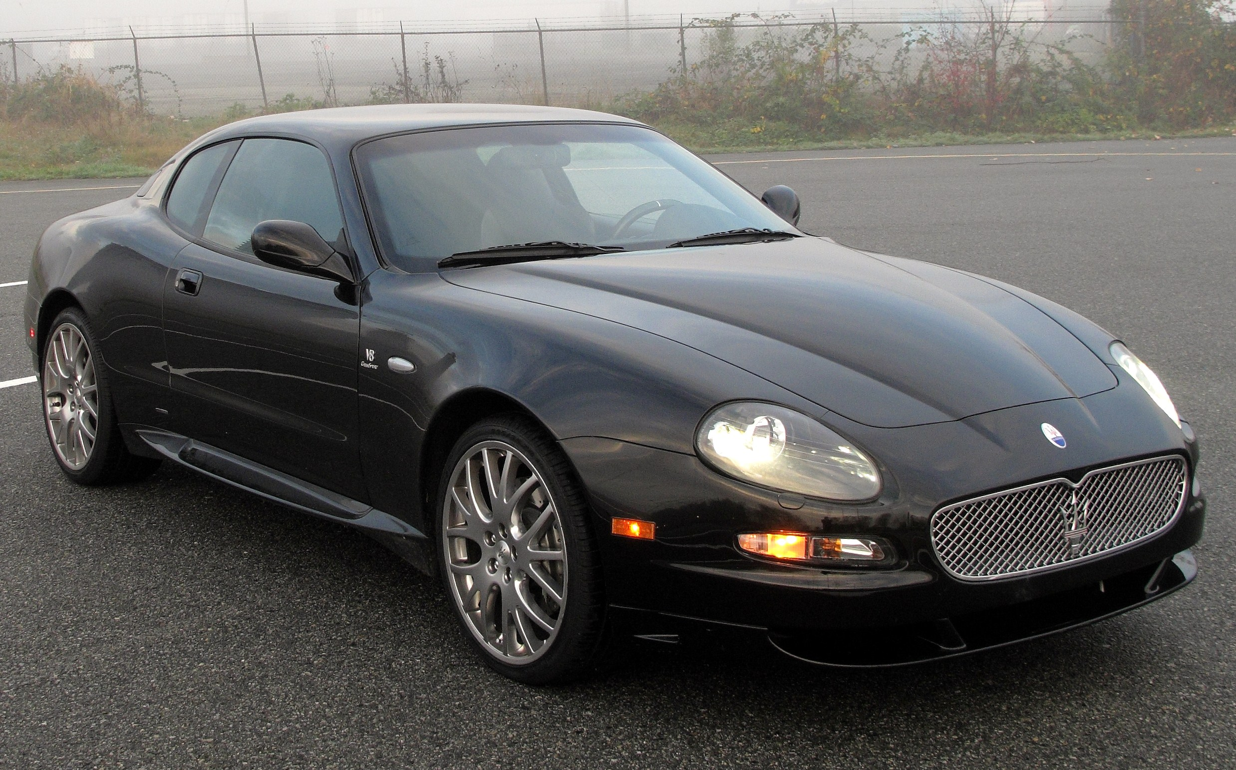 Maserati Coupé GranSport